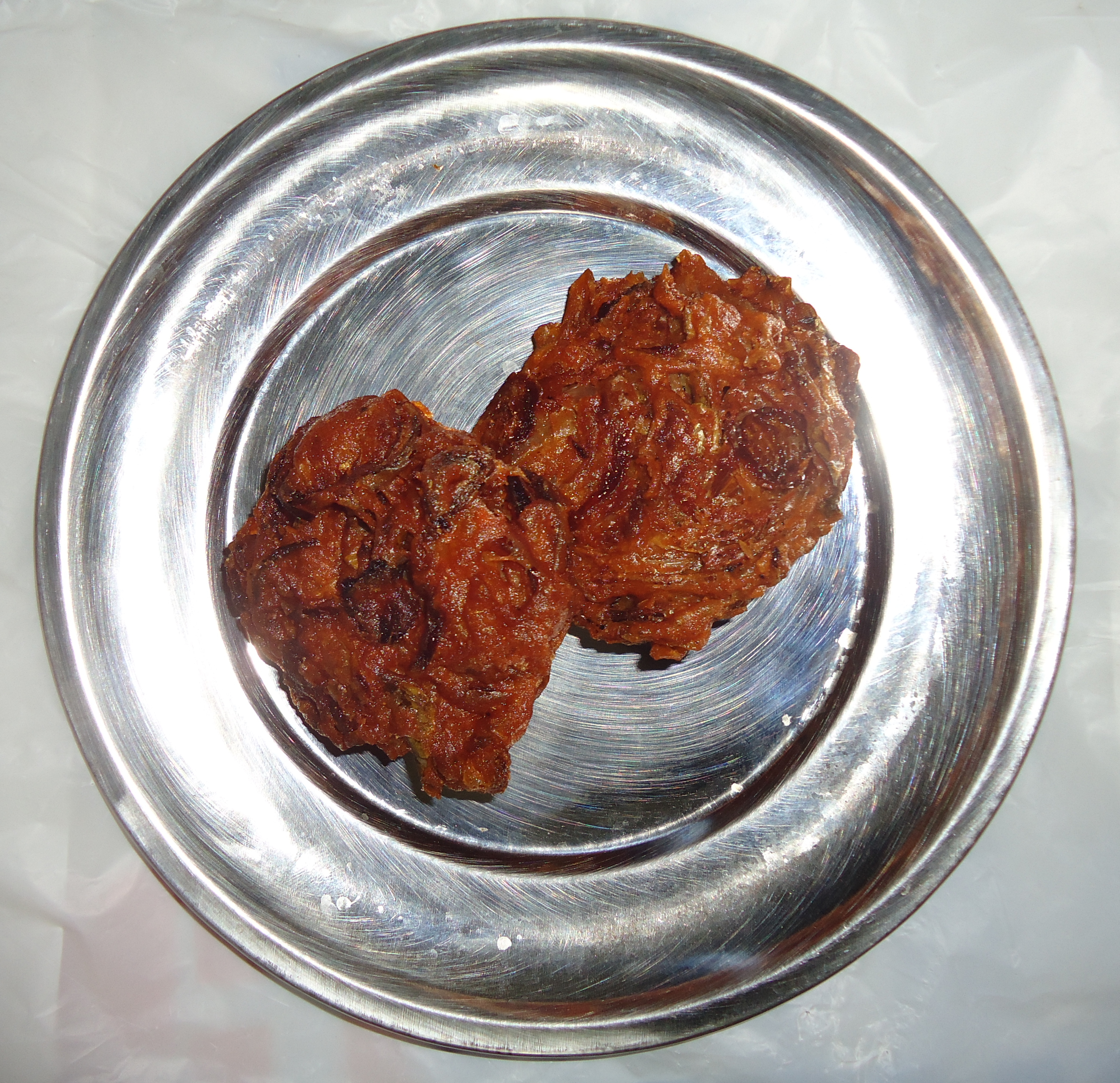 A vada with onion used in Kerala